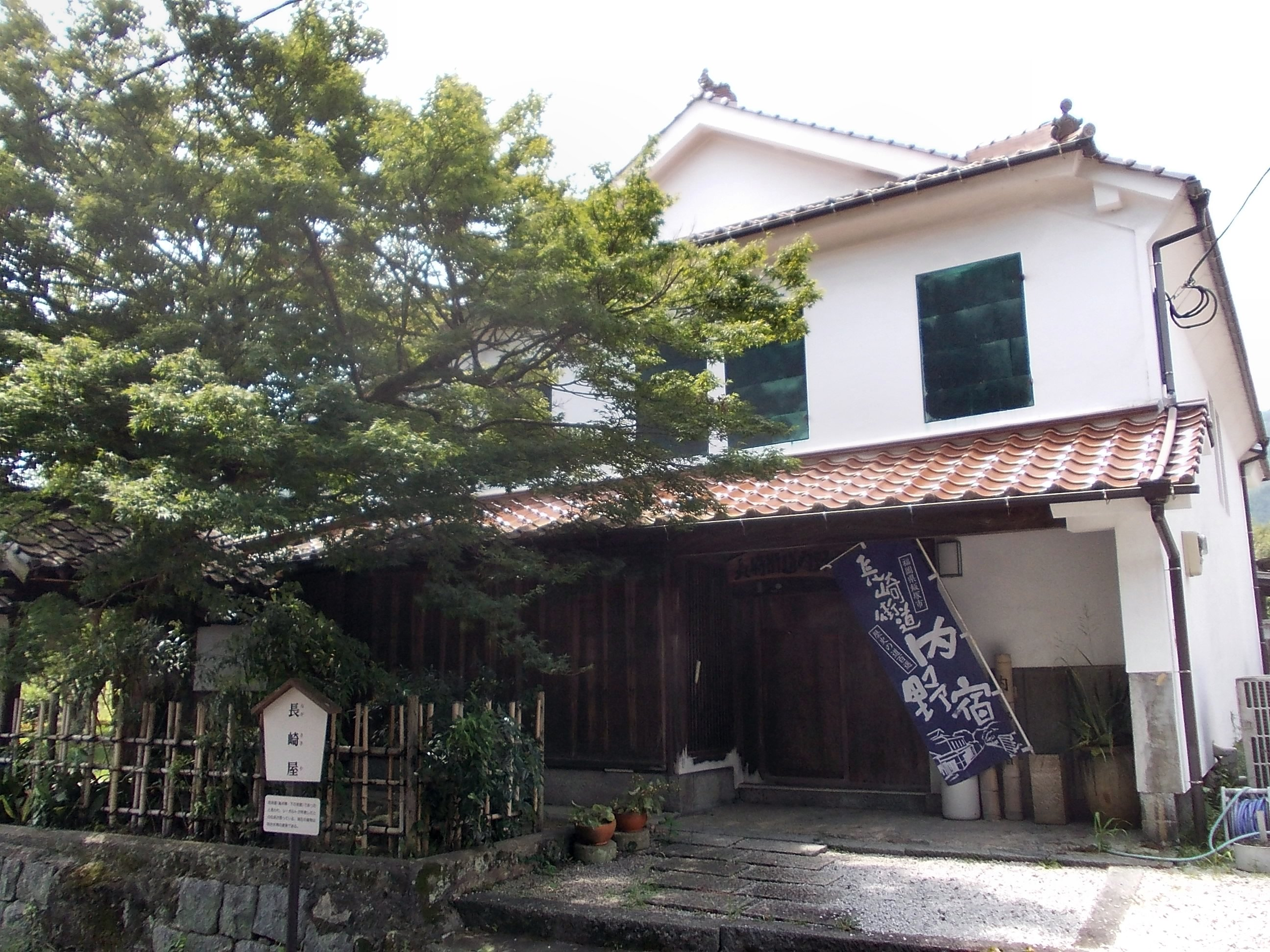 The old Nagasaki Kaido Uchino-shuku in Iizuka, Fukuoka, Japan. Remaining the old road as in the Edo era, it has kept the post station of vestiges at that time. The Nagasaki-ya house was opened as a rest place for visitors in 2004.